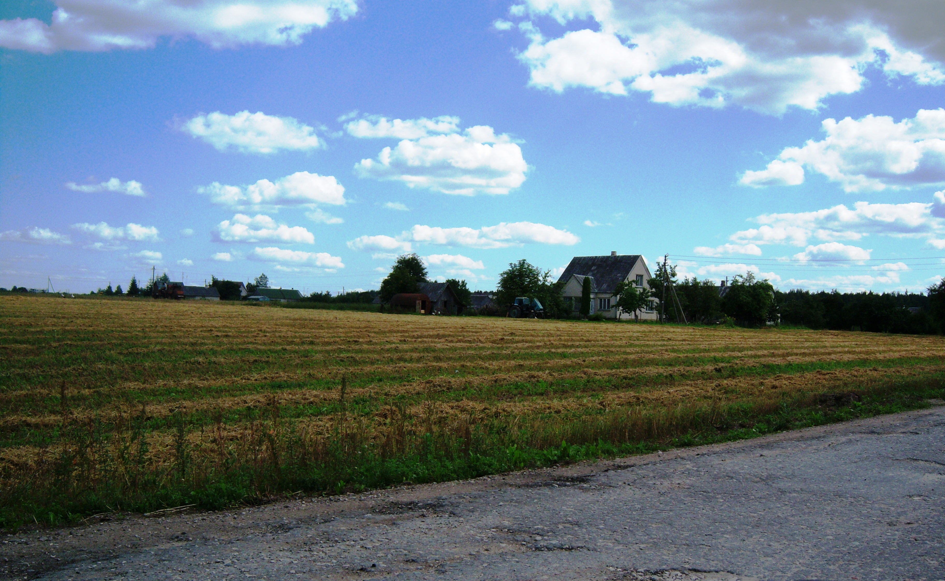 Radiškis, Ukmergė District, Lithuania